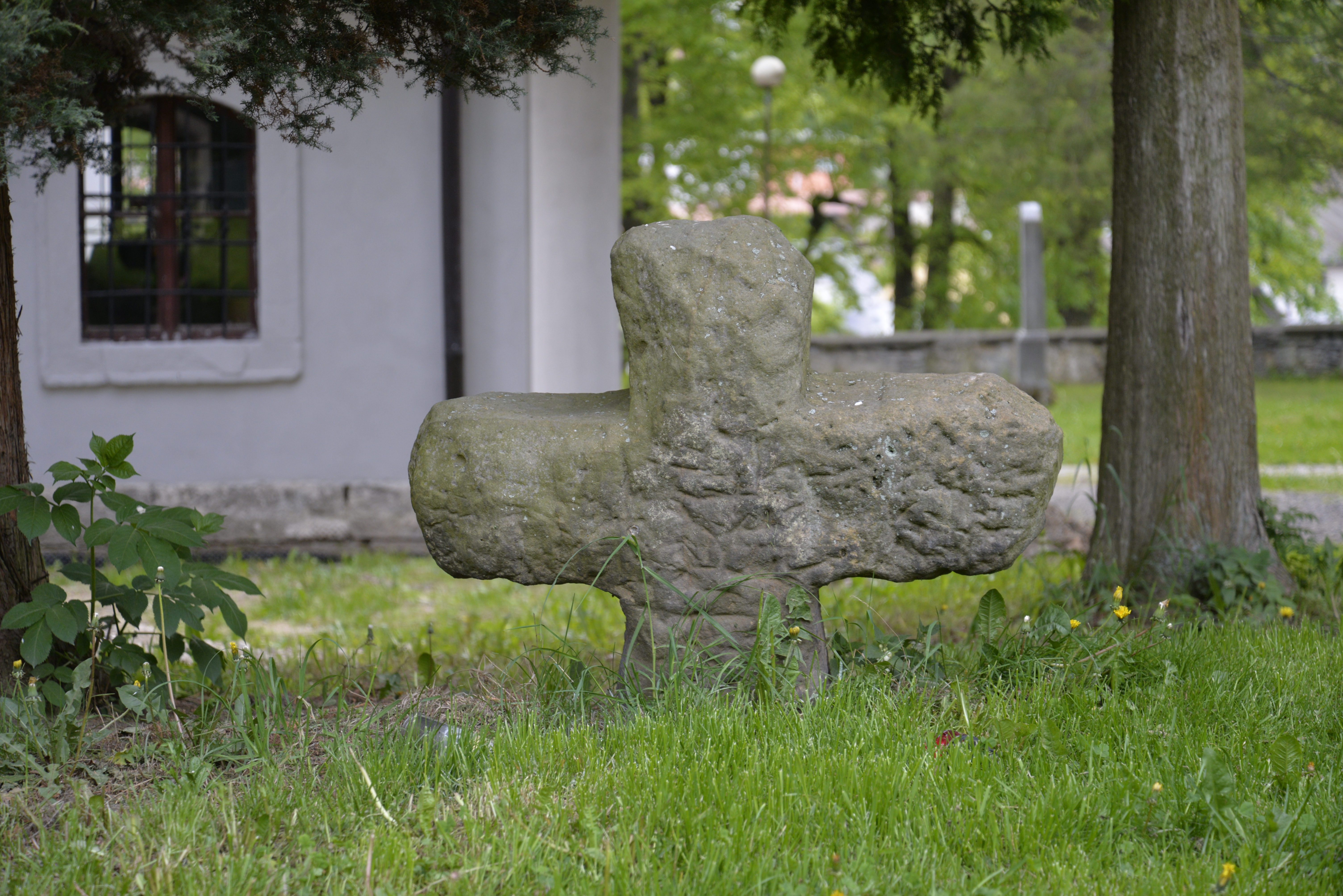 Conciliation cross at Church of Saint James the Greater, Malé náměstí, Františka Balatky 132, Železný Brod.